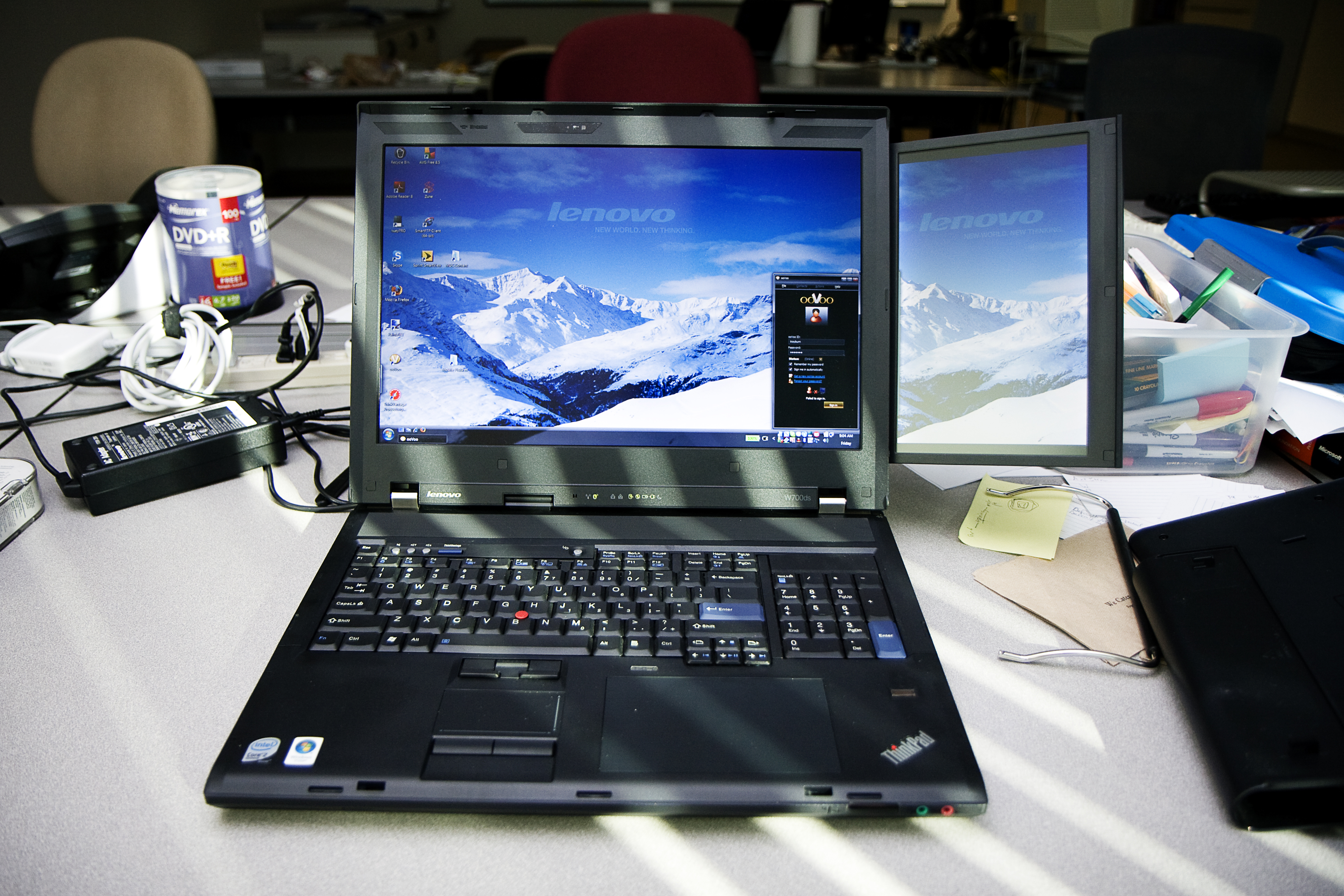 Tim's Lenovo W700DS dual-screen laptop.